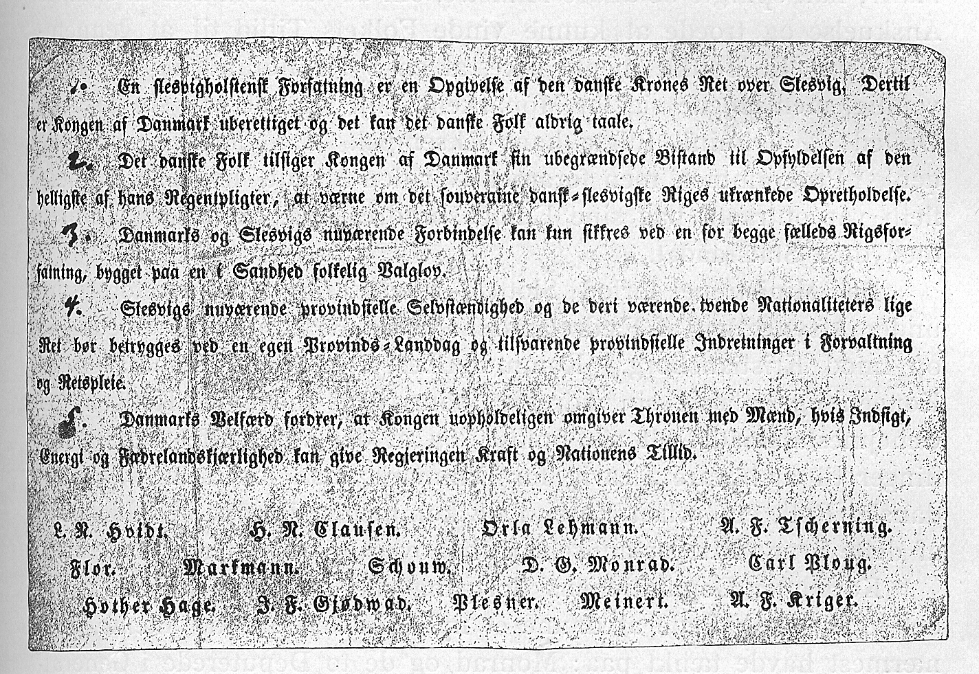 Casinomødets erklæring (Carl Plougs eksemplar).